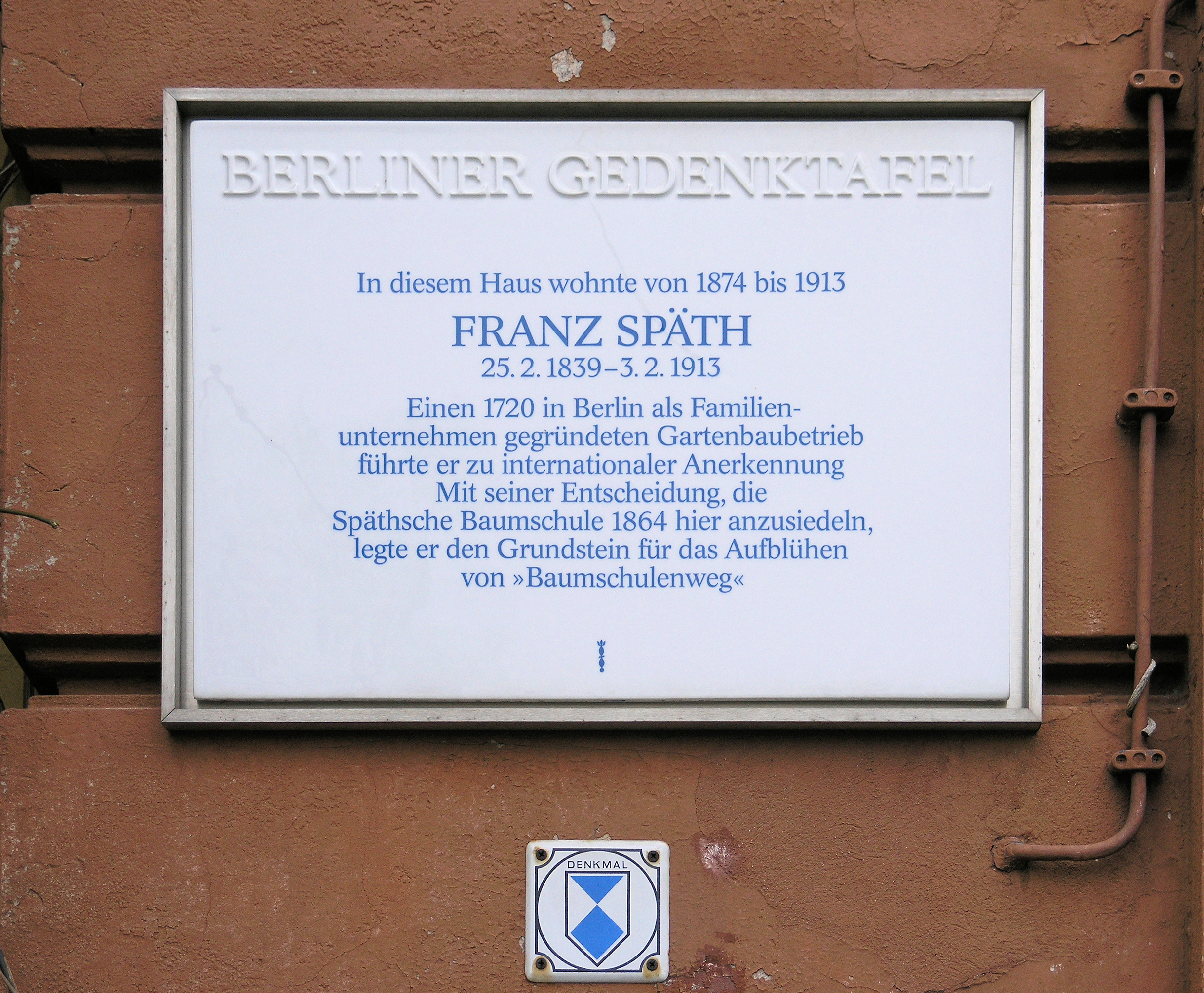 Berlin memorial plaque, Franz Späth, Späthstraße 80-81, Berlin-Baumschulenweg, Germany